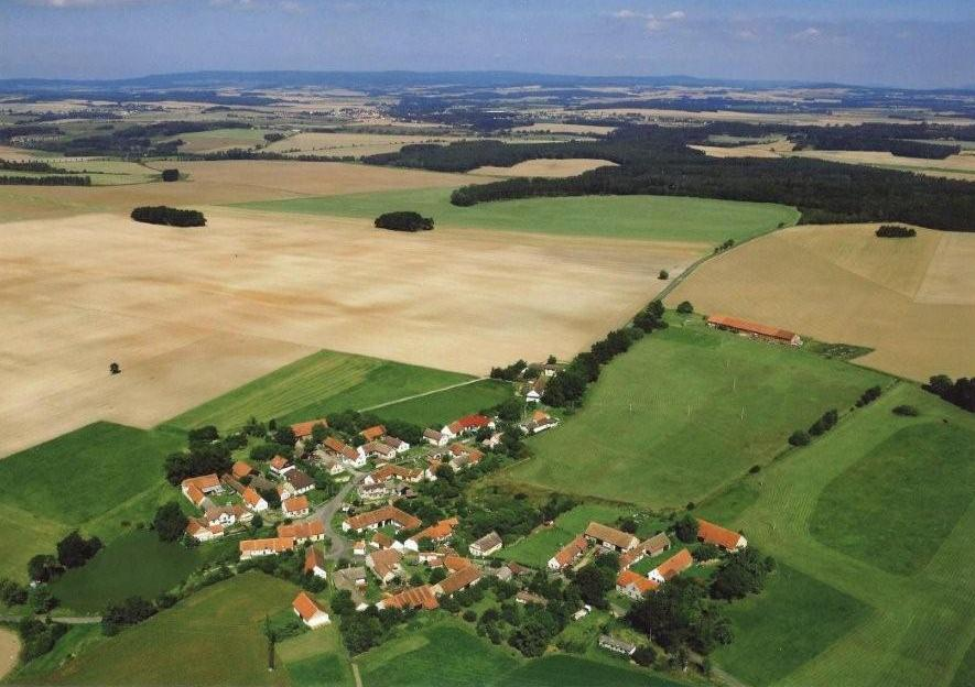 Ráztely and neigbourhood from the air